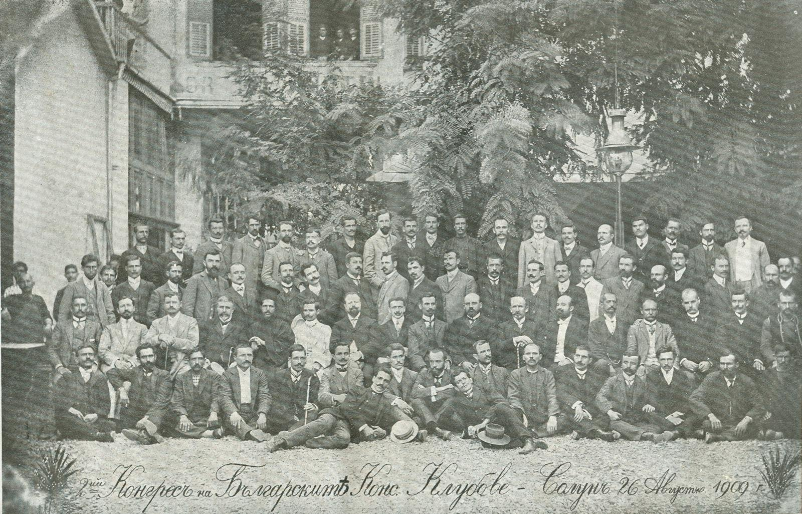 Congres of SBKK /bulgarian partee of Young turks revolution/